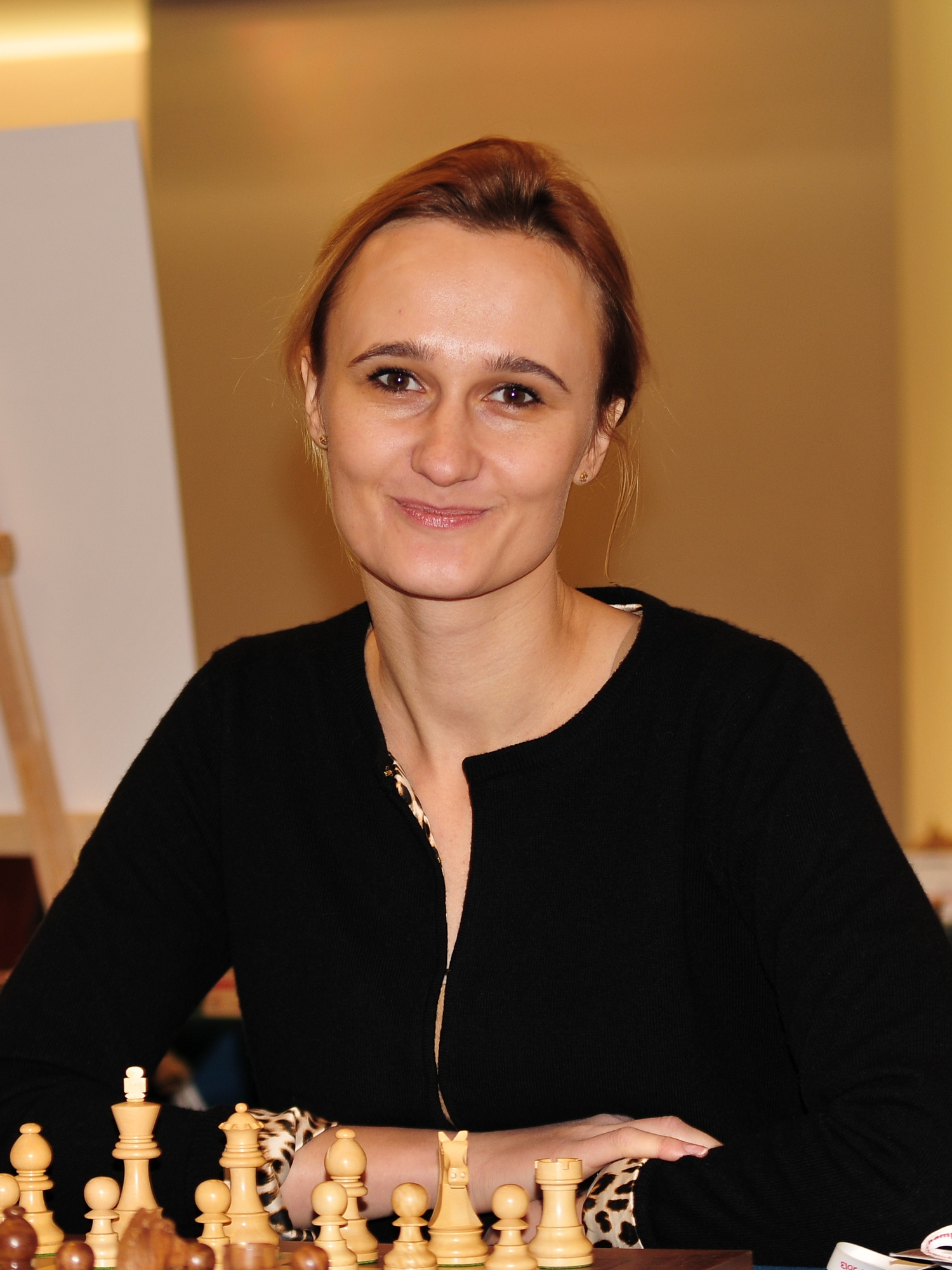 GM Viktorija Čmilytė, European Chess Team Championship Warsaw 2013